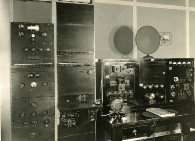 The control room of 4RK Rockhampton an ABC radio station at its opening